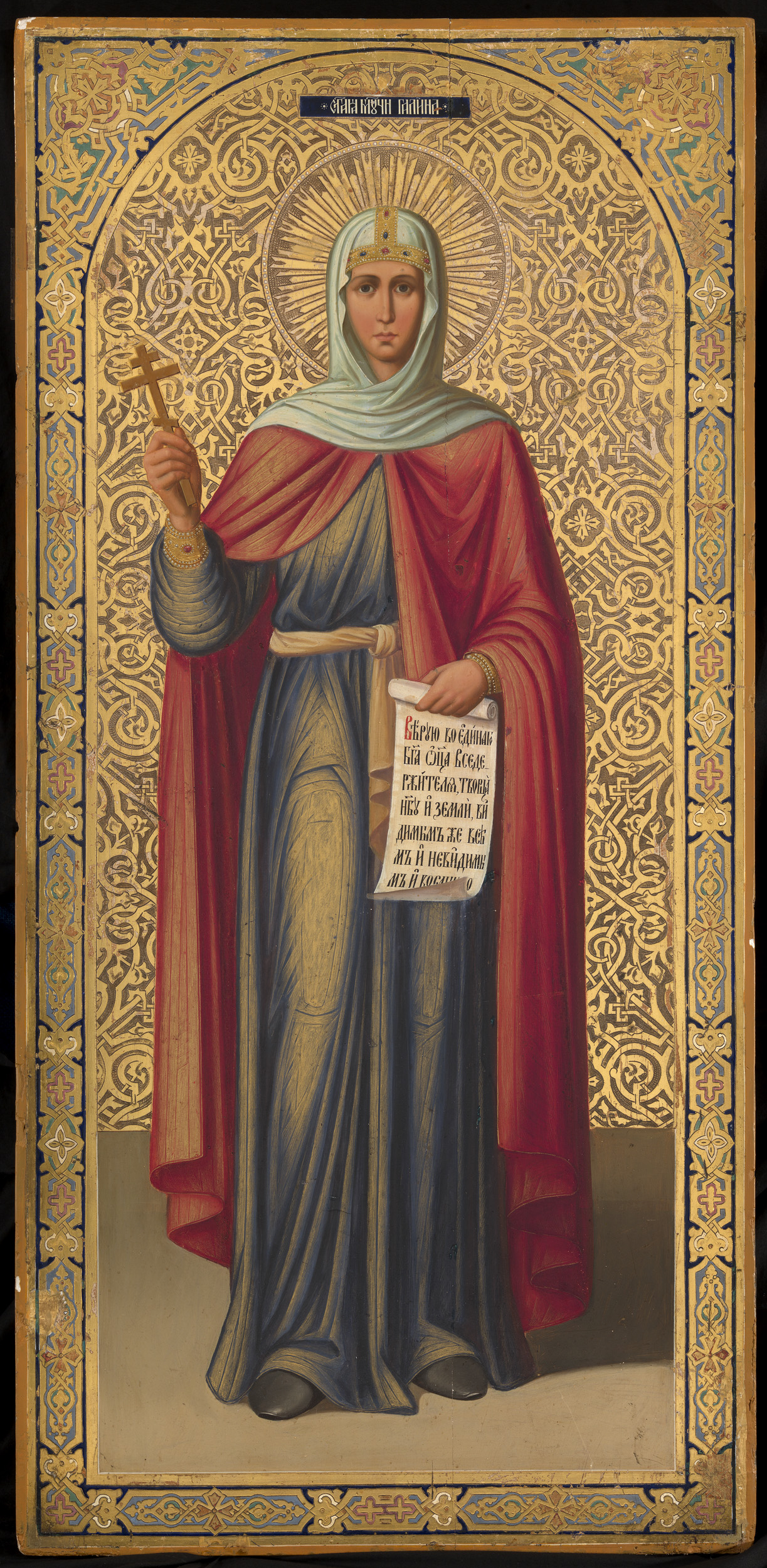 A LARGE ICON OF THE HOLY MARTYR ST GALINA KORINFSKAYA